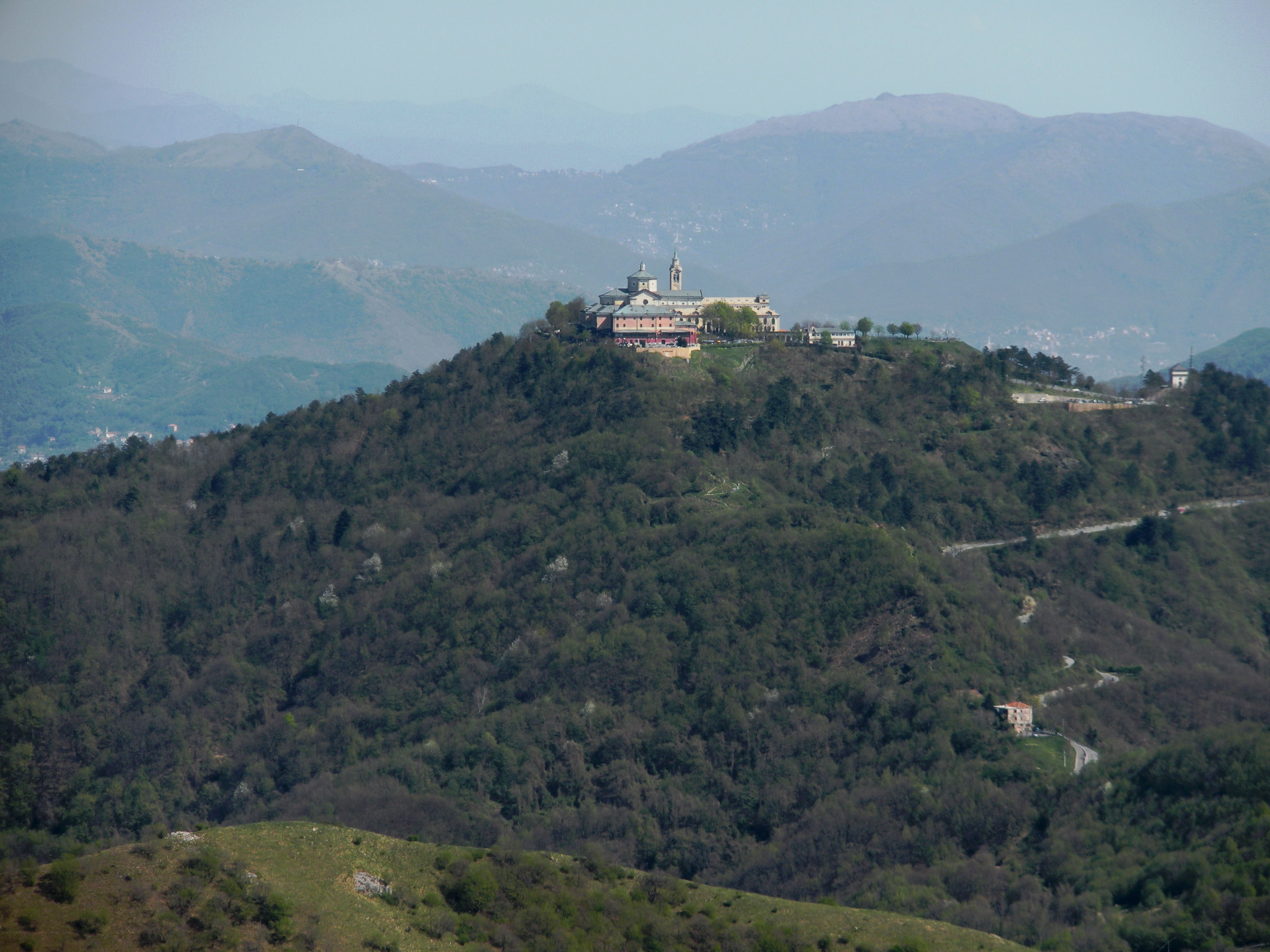 Ceranesi (province of Genoa, Italy), the shrine of N.S. della Guardia, seen from Mt. Proratado